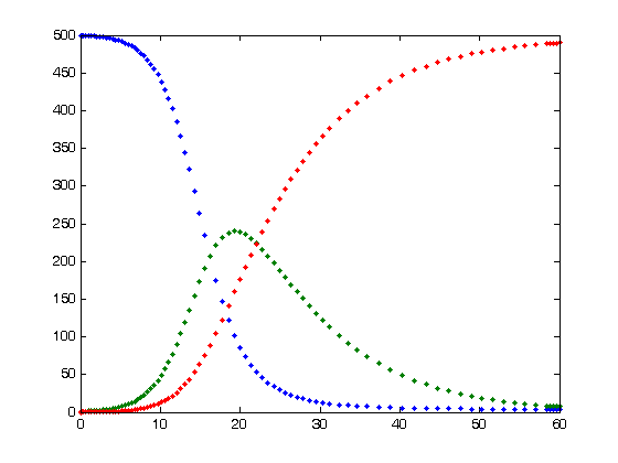 (Colors are believed to be: Blue=Susceptible, Green=Infected, and Red=Recovered) An epidemiological graph for the SIR model. S represents the number of susceptibles, I the number of infectious people and R the number of recovered. Graph generated using MATLAB code